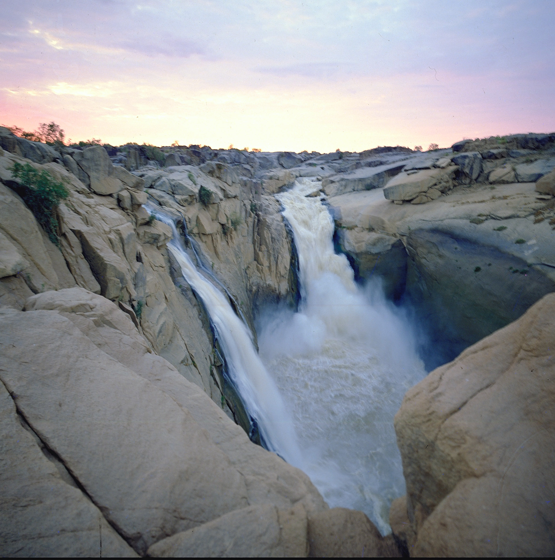 Augrabies Falls in Augrabies Falls National Park, South Africa Vue de Northern Cape en Afrique du Sud.